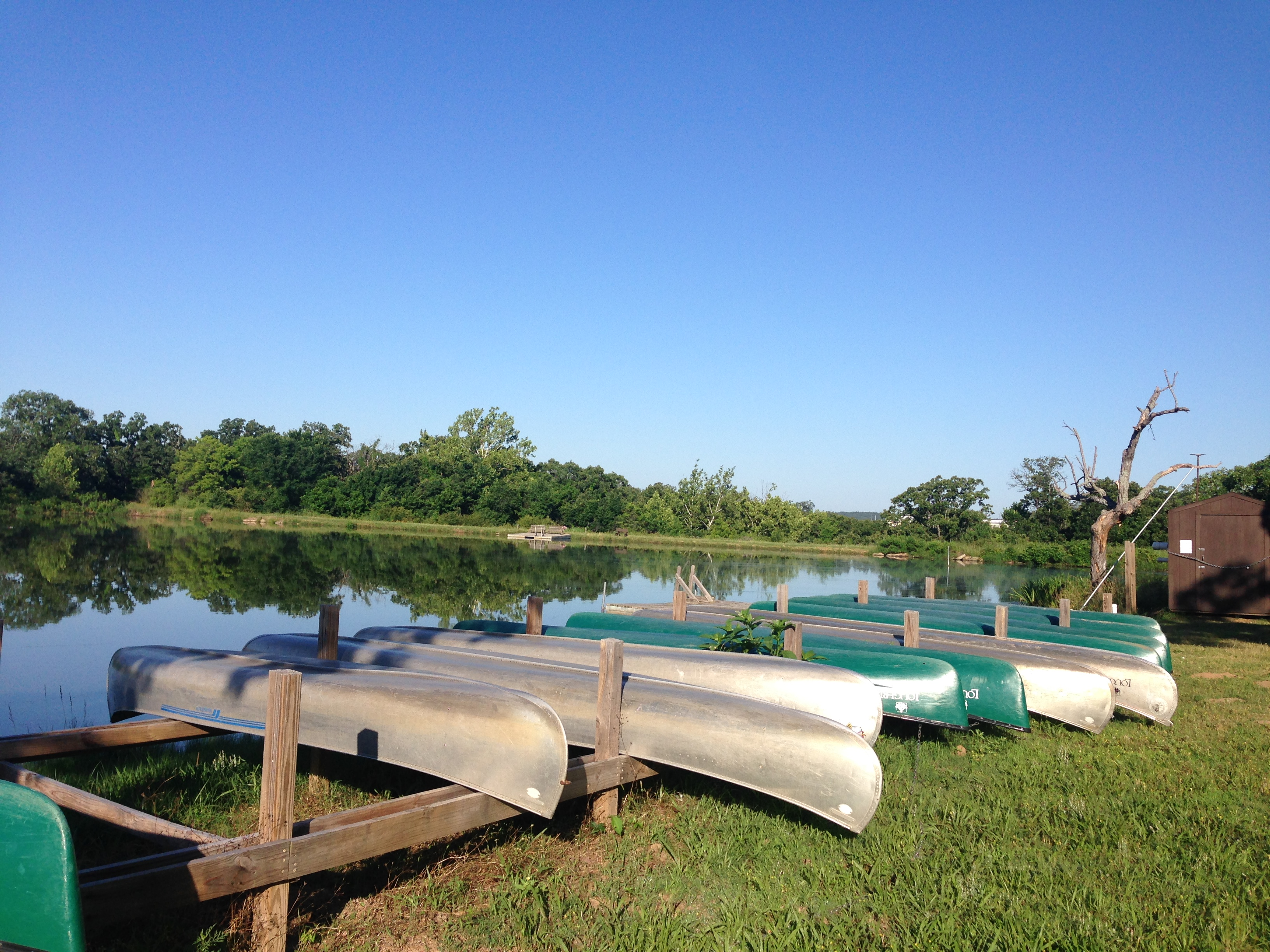 Canoes on Turtle Lake at Camp Loughridge